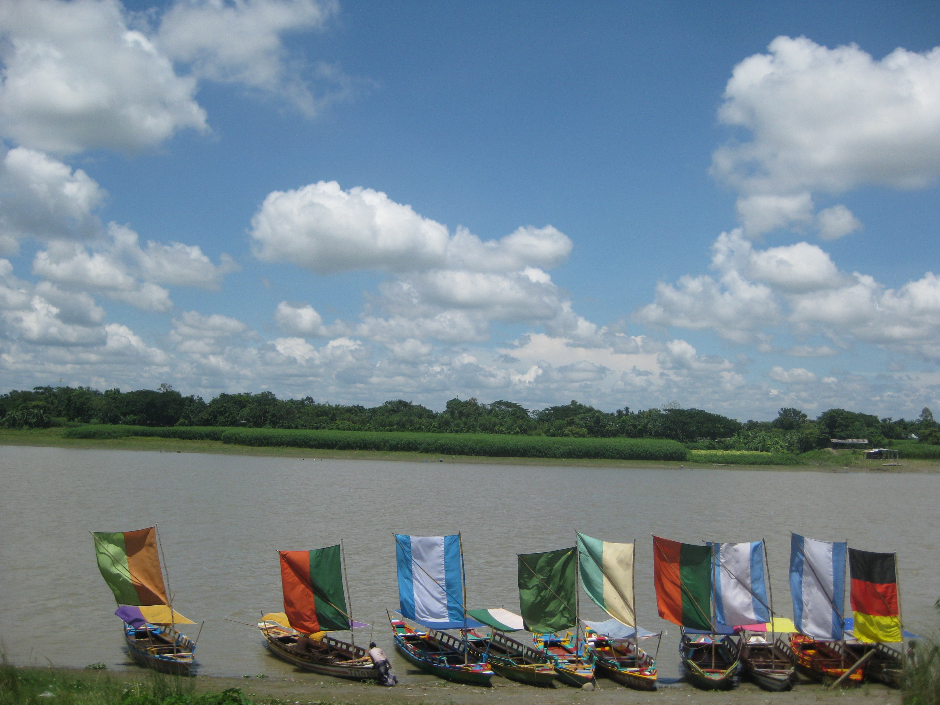 Standing colorful Sailboats in Brahmaputra River, Mymensingh